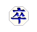 One of the janggi pieces.